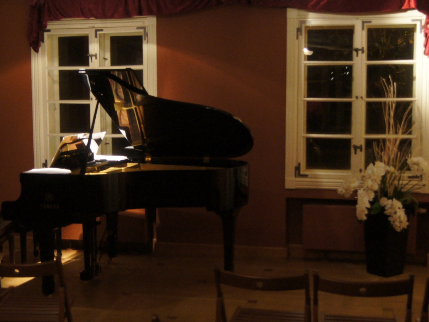 Sierakowski manor in Sopot, Poland; inside